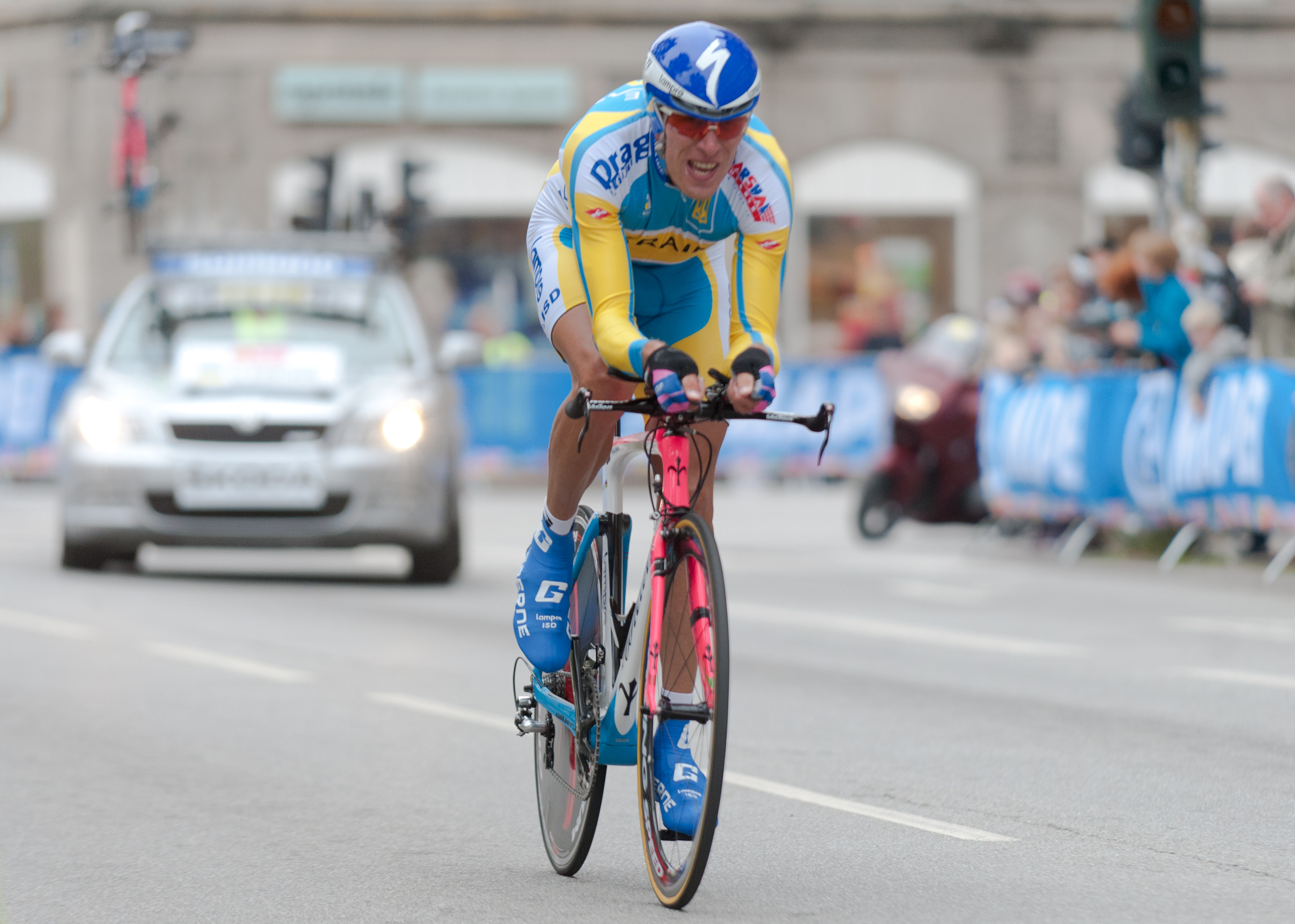 Oleksandr Kvachuk at the 2011 UCI Road World Championship in Copenhagen.